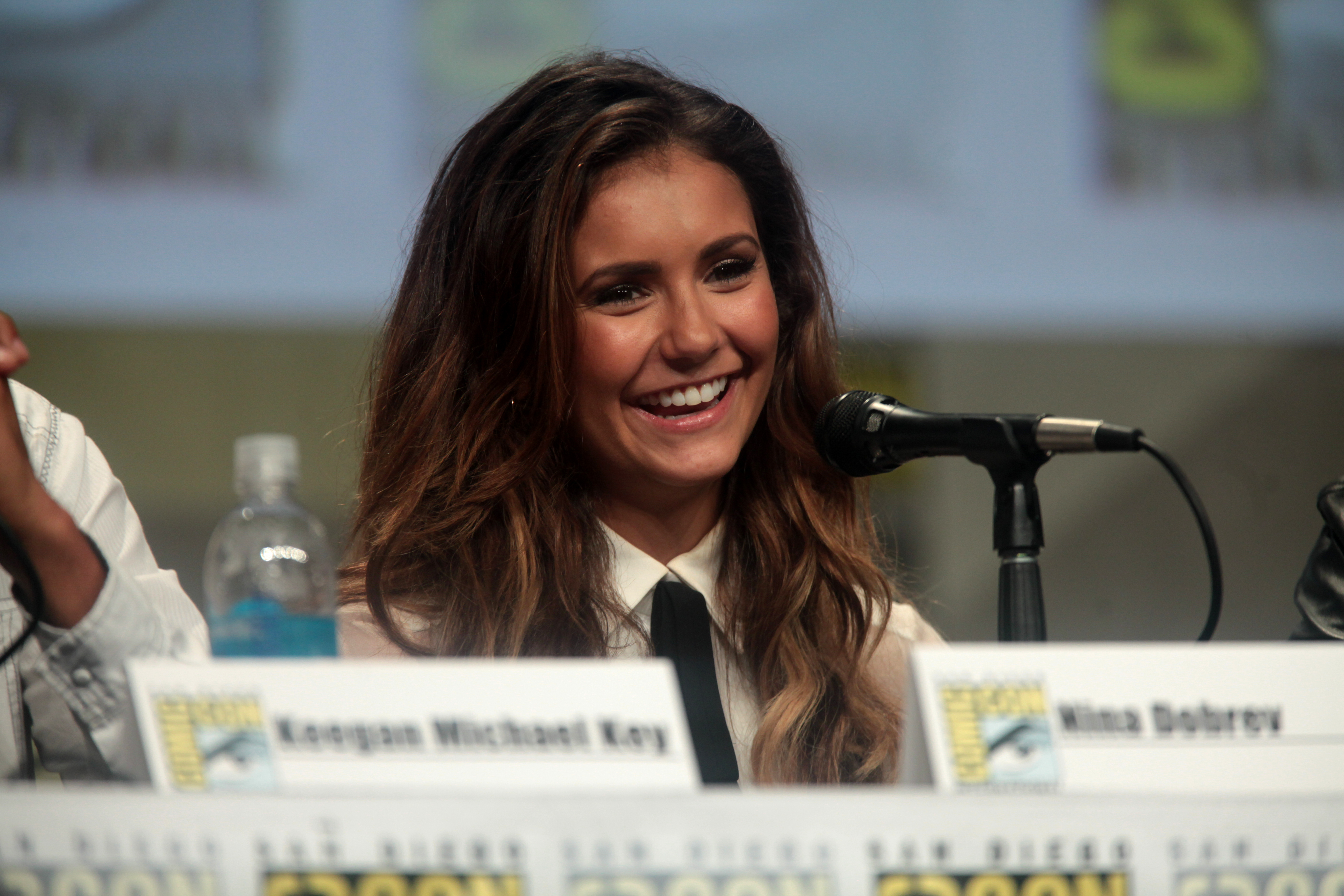 Nina Dobrev at SDCC 2014 for "Let's Be Cops"